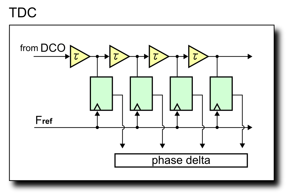 All Digital PLL TDC